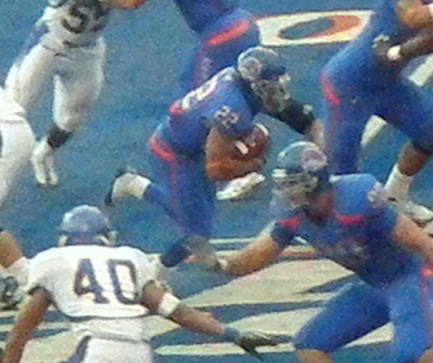 Boise State running back Doug Martin in a game vs San Jose State in Boise ID on October 31, 2009